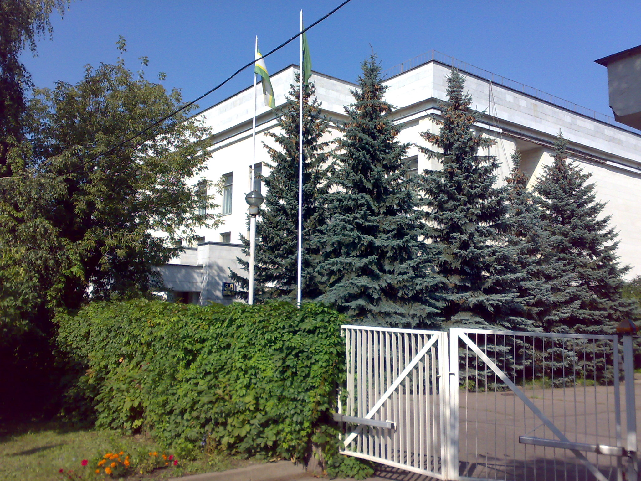 took this image using my mobile phone, on 4 September, 2008. The embassy of Libya in Moscow.